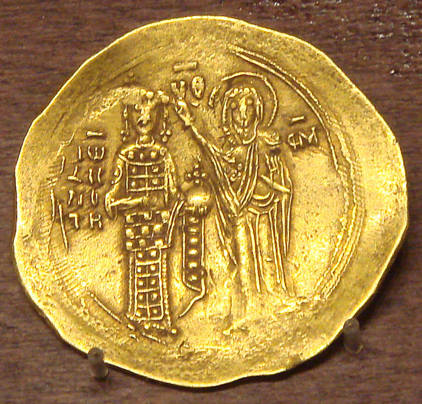 Coin of Jean II Comnene: Virgin Crowning John